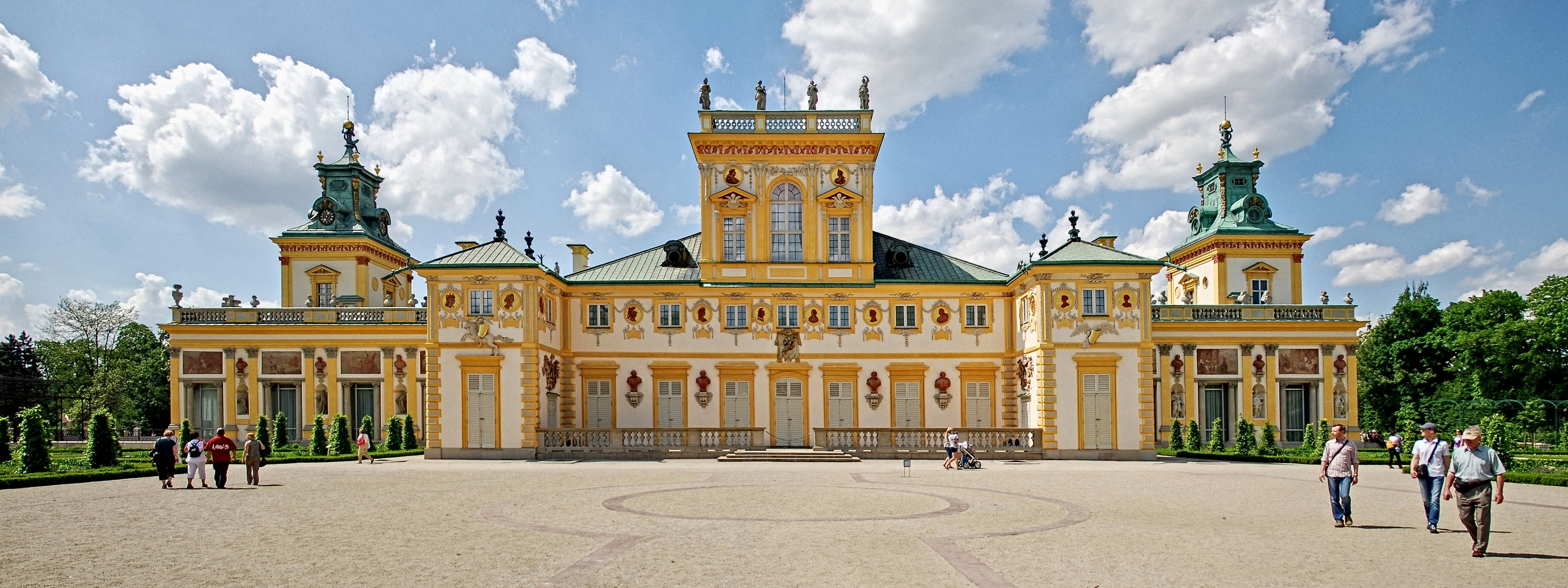 Exterior of the Wilanów Palace.